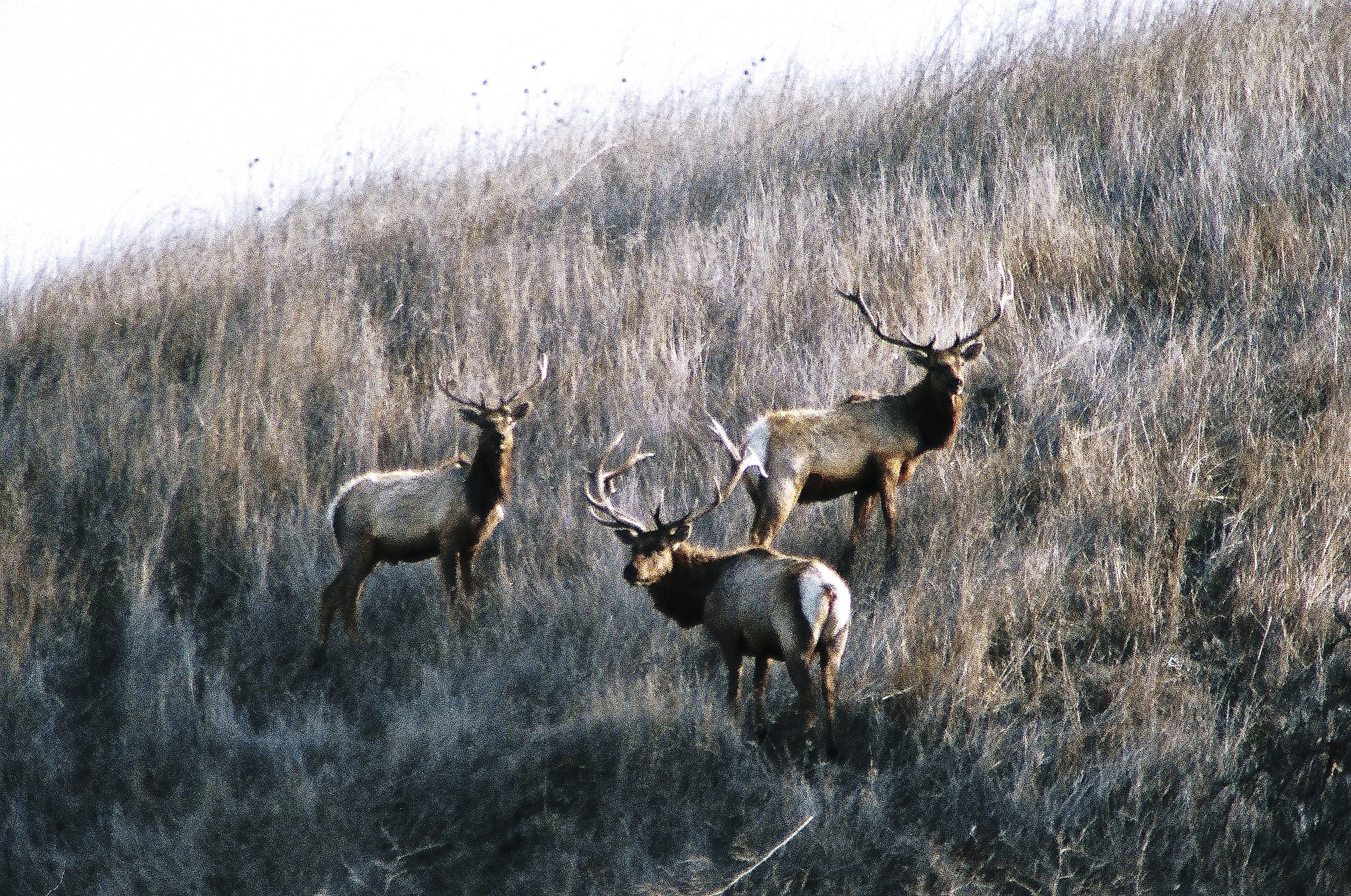 Three tule elk just east of Highway 101 in Basking Ridge Park, Santa Clara County, California.